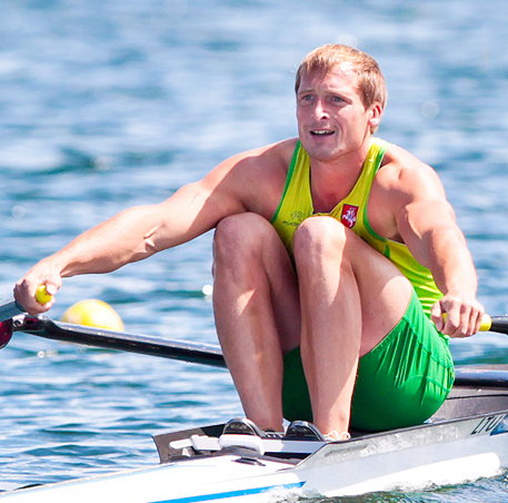 Lithuanian rower Mindaugas Griskonis